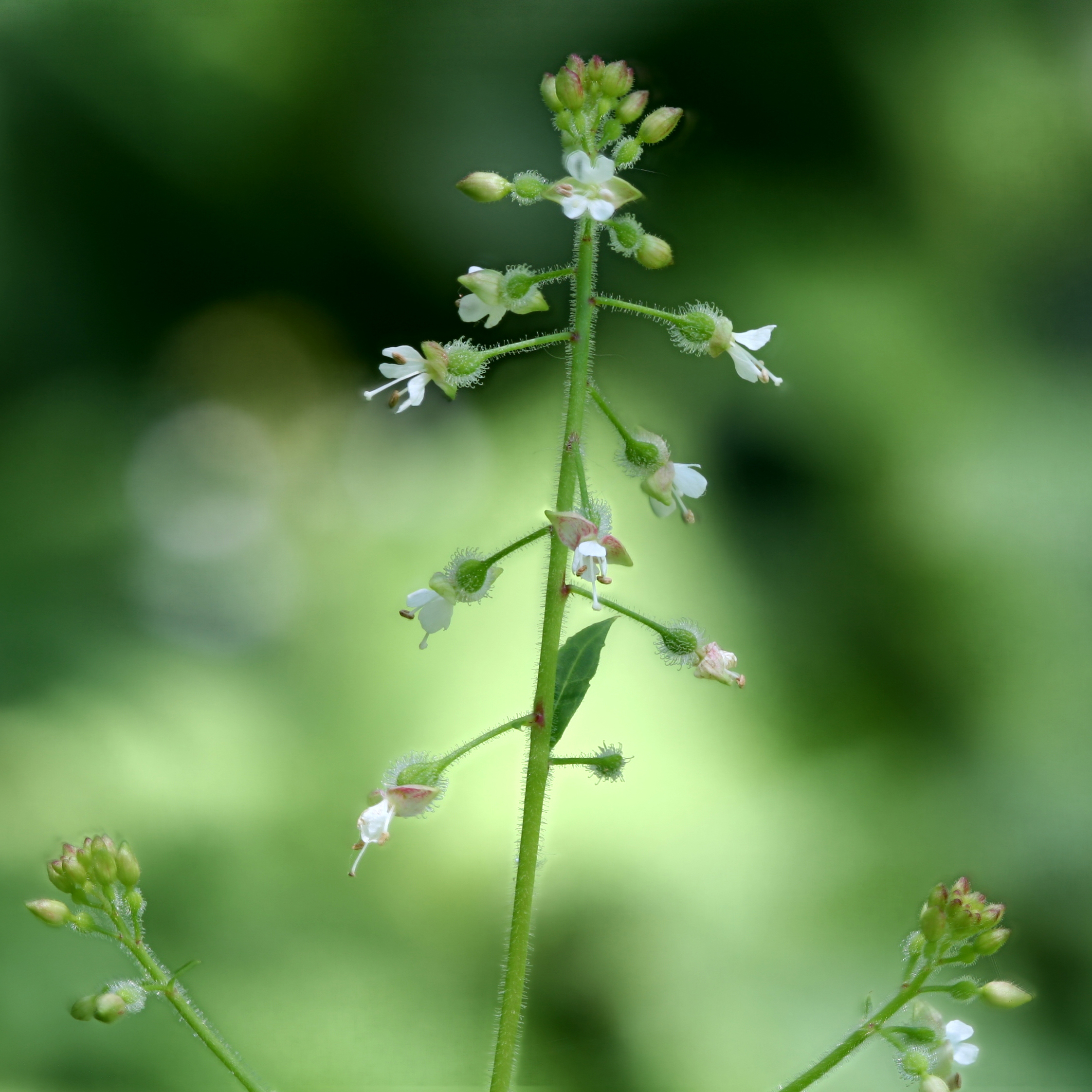 Circaea lutetiana ssp. canadensis (enchanter's nightshade) photographed in the town of Skaneateles, New York